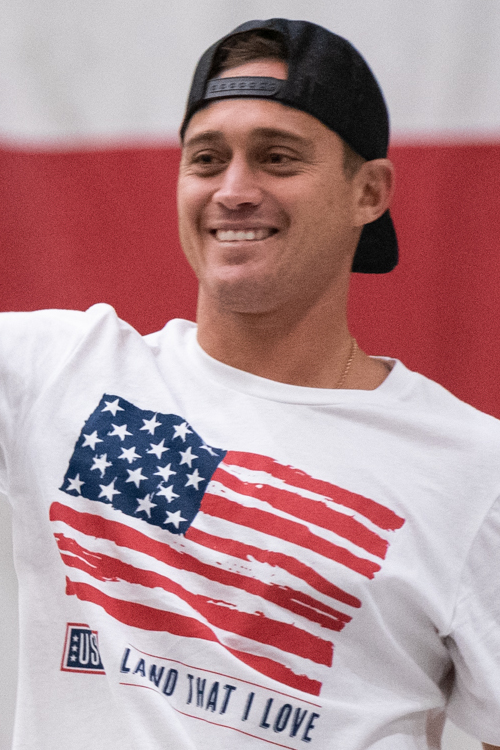 Entertainers and athletes take questions and interact with the audience during a USO Show at Bagram Airfield, Afghanistan; the second stop on the annual Vice Chairman’s USO Tour, March 31, 2019. Country music artist Craig Morgan, celebrity chef Robert Irvine, UFC Hall of Famer BJ Penn, former UFC Middleweight champion Chris Weidman, professional mixed martial artist Felice Herrig, two-time MLB World Series champion Shane Victorino; and professional surfer Makua Rothman joined Air Force Gen. Paul J. Selva, vice chairman of the Joint Chiefs of Staff, on a tour across the world as they visit service members overseas to thank them for their service and sacrifice. (DoD Photo by U.S. Army Sgt. James K. McCann)